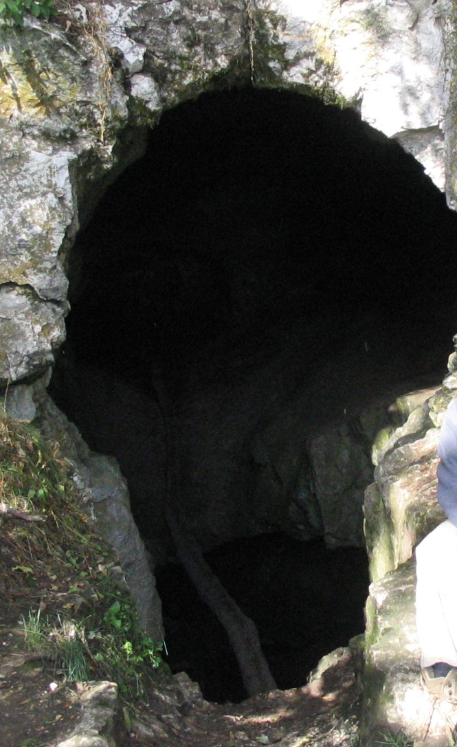 Cave Pisznice - "gate" In the Gerecse mountain